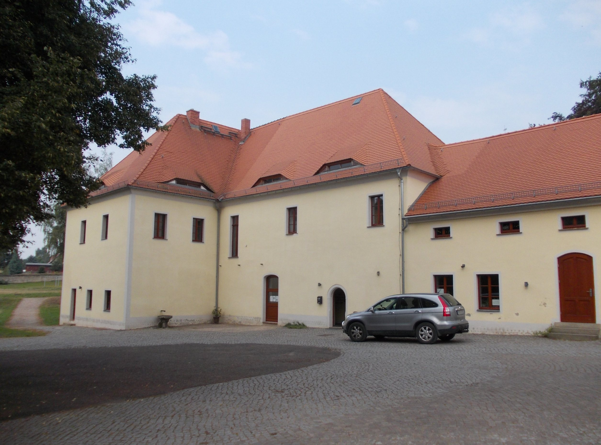 The former Cistercian nunnery of Marienthal in Sornzig (Mügeln, Nordsachsen district, Saxony)